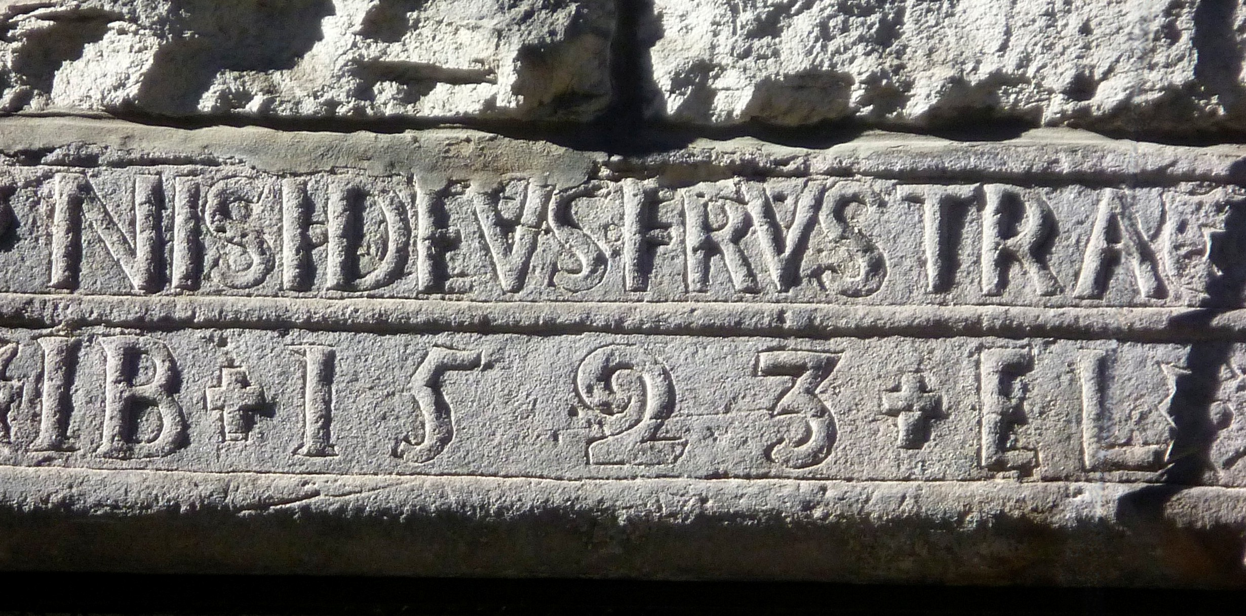 16thC lintel from Old Post House Close in the Cowgate, Edinburgh. The inscription NISI DEVS FRVSTRA—without God, [the building of the house is] in vain, or, more simply: "everything is in vain without God" —appears above the initials of James Barron and his spouse Ellen Leslie who died in 1577. It is believed that the third numeral of the date 15[?]3 has been recut as a 2.